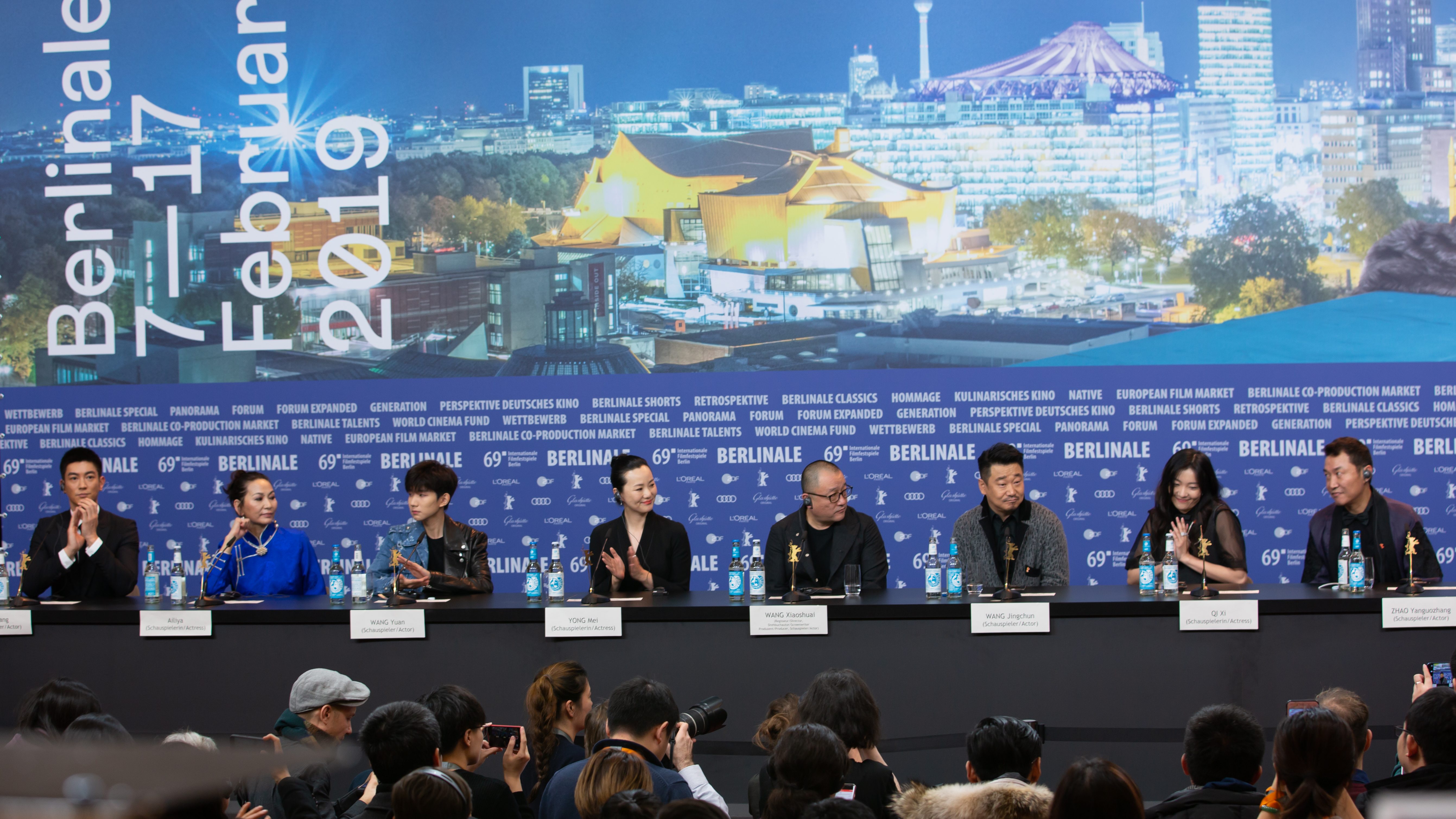 Crew of the film So Long, My Son at the Berlinale 2019. From left to right: Du Jiang, Ai Liya, Wang Yuan (Roy Wang), Yong Mei, Wang Xiaoshuai (director), Wang Jingchun, Qi Xi and Zhao Yanguozhang.